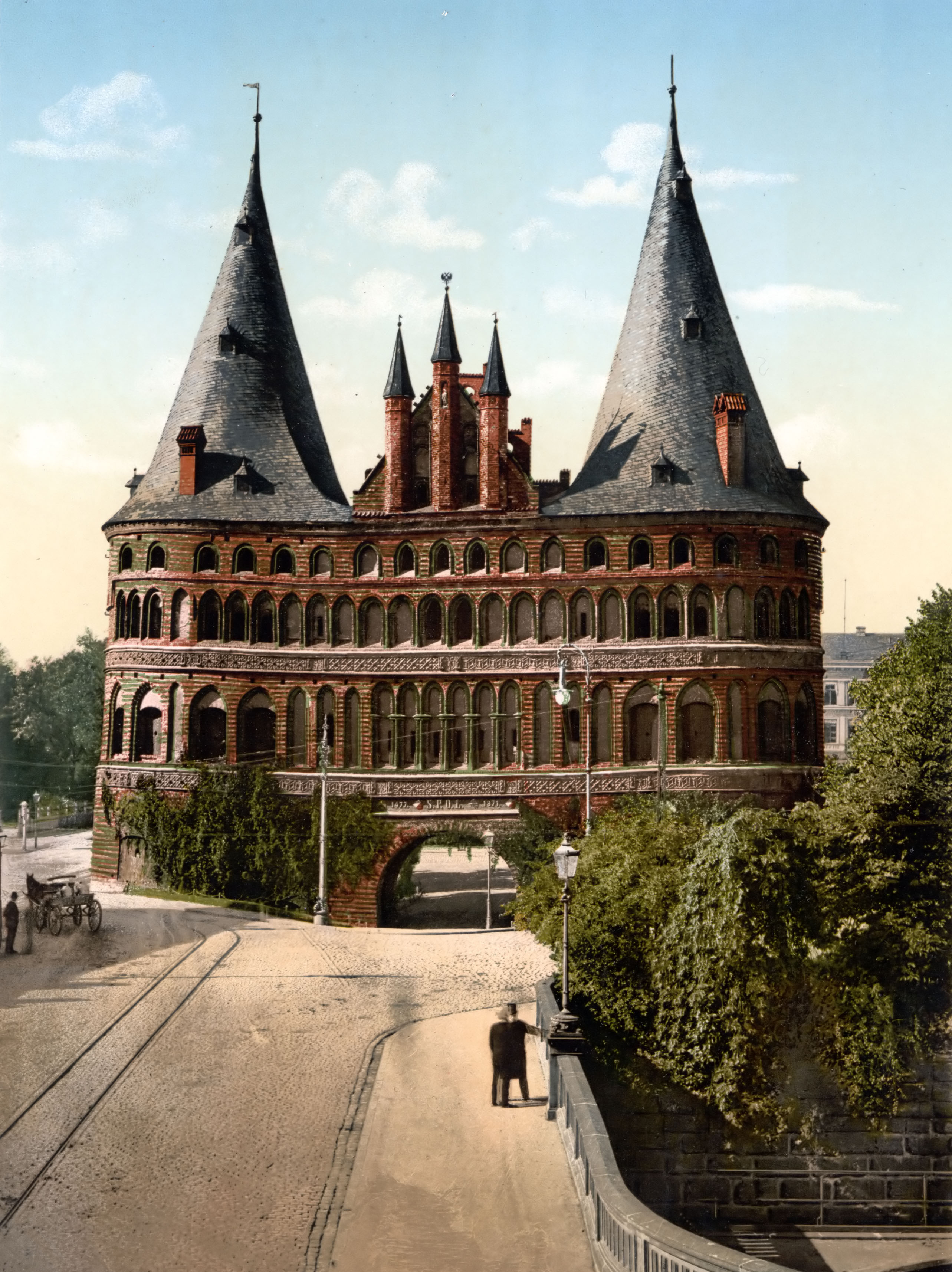 Holstengate (Holstentor), Lübeck, Germany.